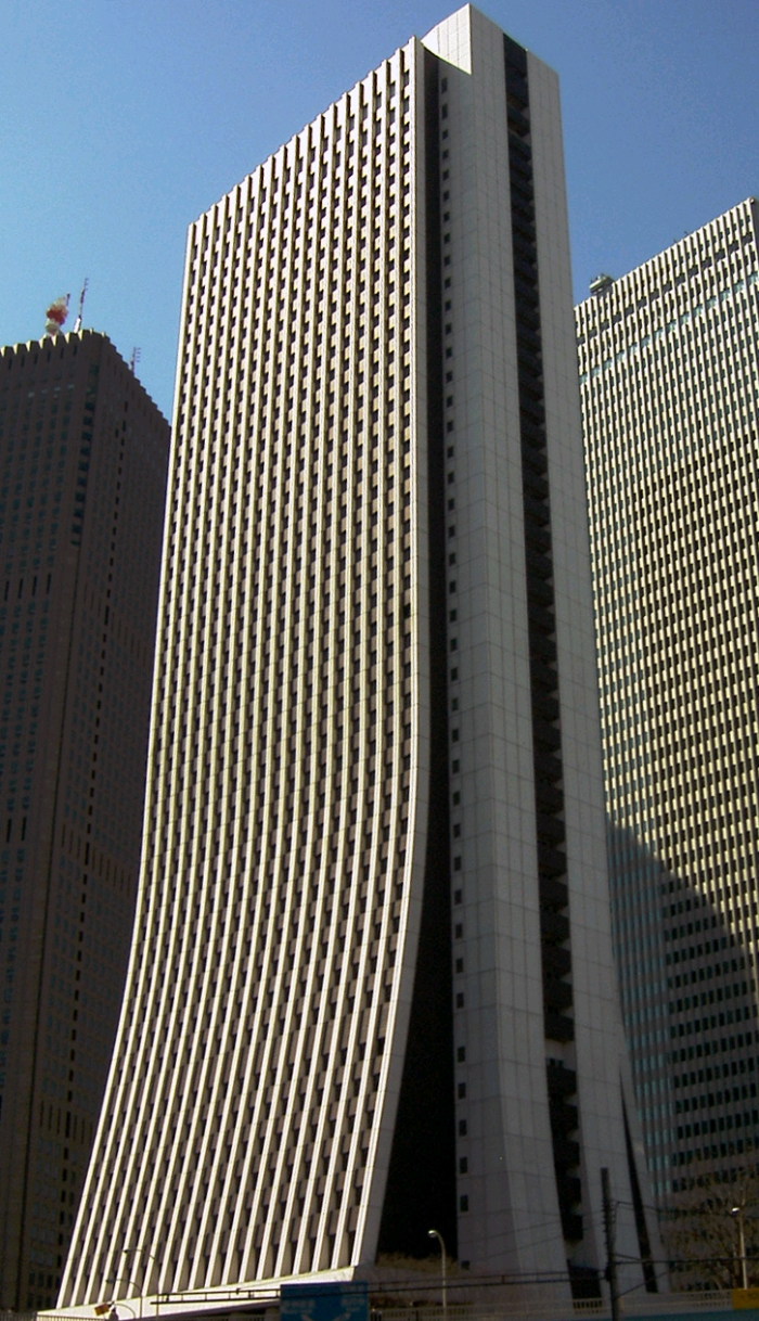 Sompo Japan Insurance_Office_Building_Shinjuku Tokyo Japan